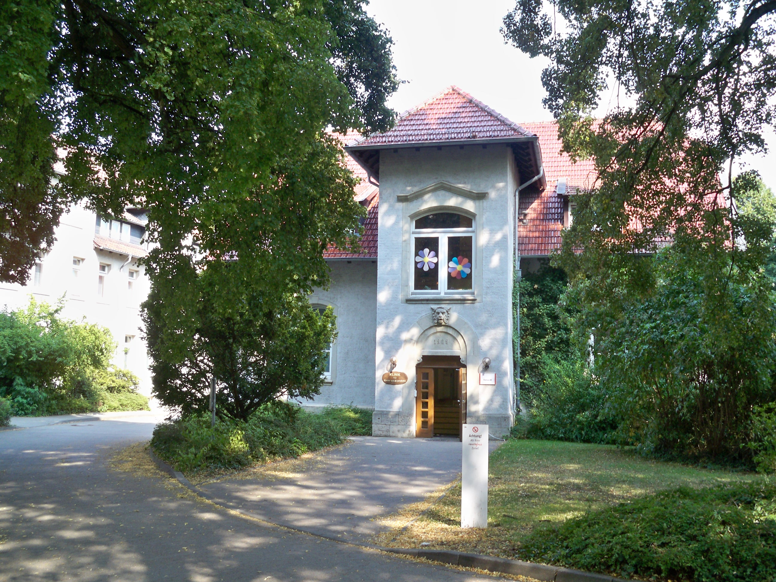 Königslutter am Elm, Lower Saxony, children's ward of psychiatric hospital